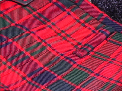 The upper portion (waist to hip) of a kilt, showing the stitched down pleats in this part of the kilt. The stitched down portion extends from the waist to the widest portion of the seat. If the kilt is worn properly (that is, on the waist, not the hips), the pleats from this point will fall straight down and not flare out. Photo is copyright © 2005 by James F. Perry.